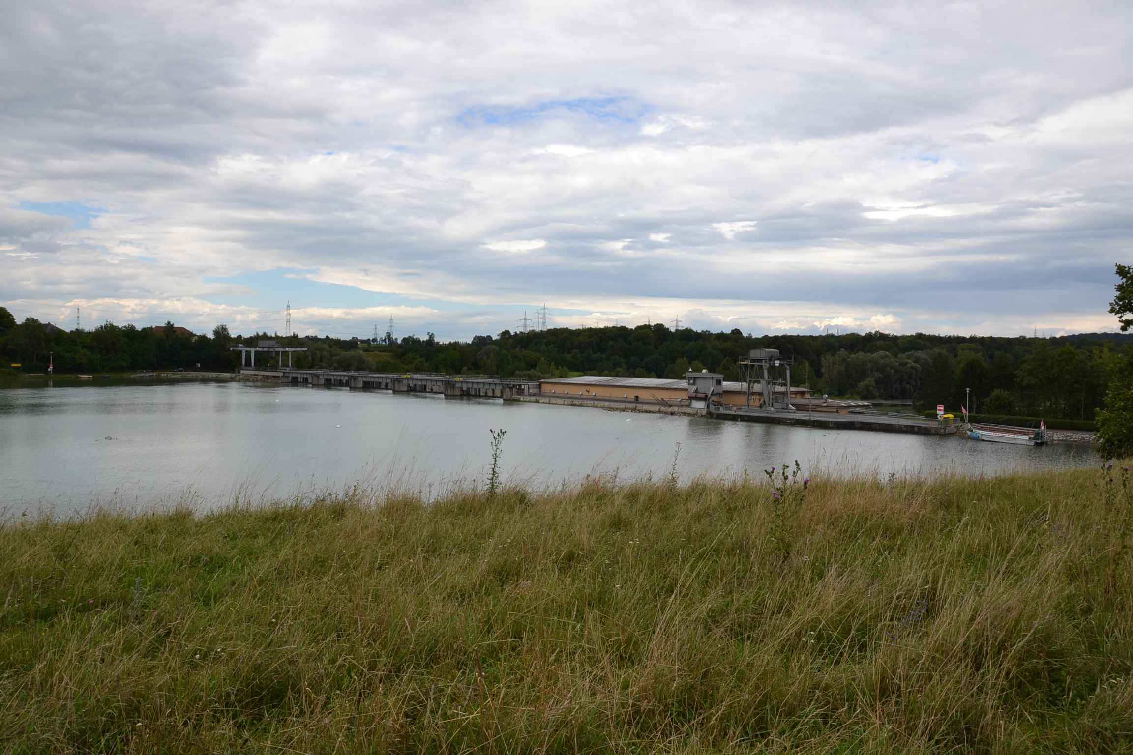 Hydro power plant Staning